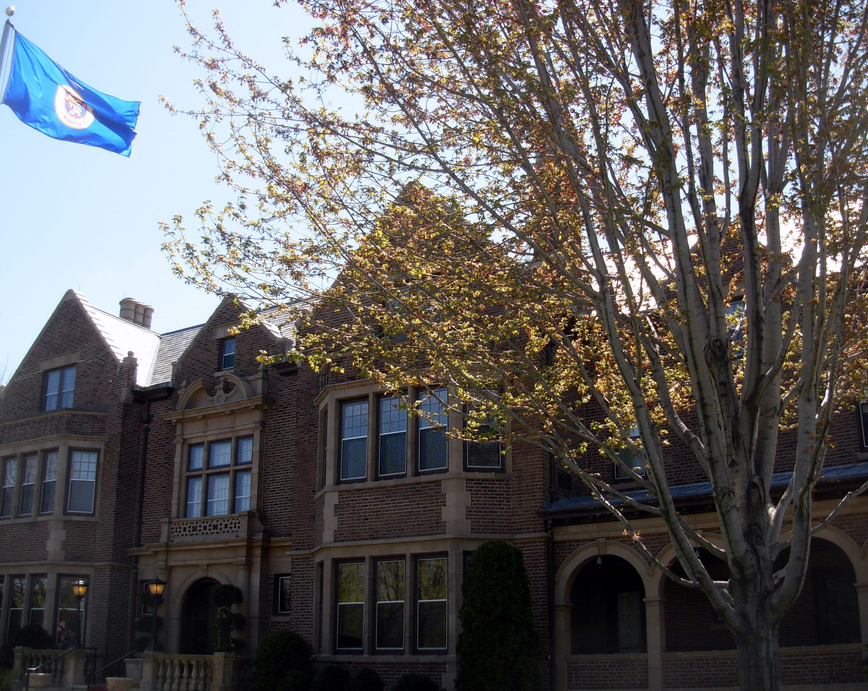 Minnesota Governor's Mansion on Summit Avenue in St. Paul, Minnesota